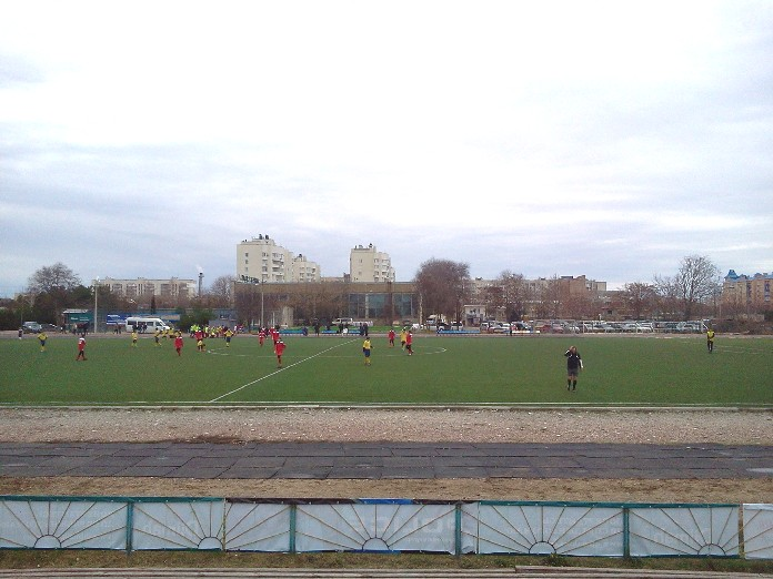 Palace of Sports Stadium in Yevpatoria, Crimea, Ukraine